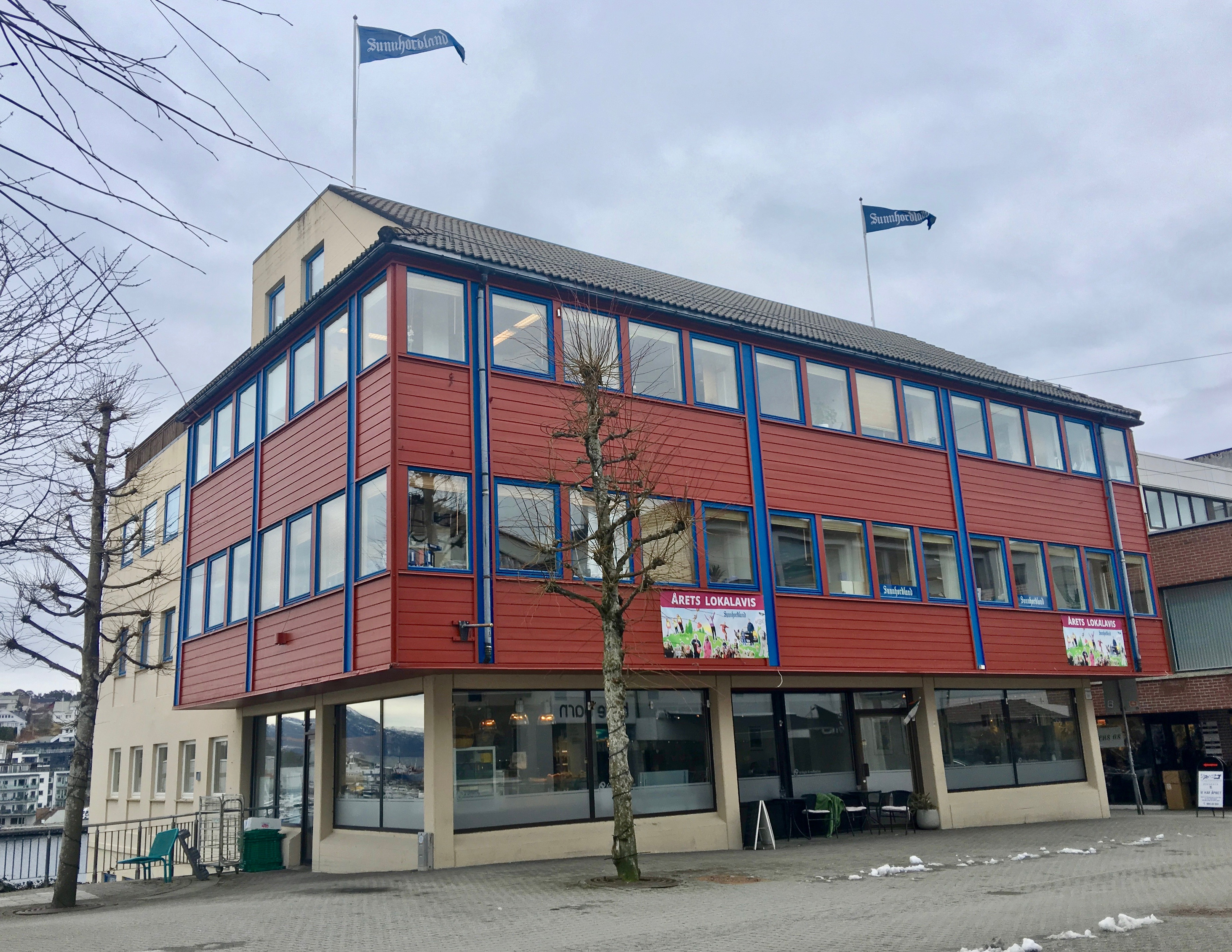 Bladet Sunnhordland AS in Borggata, Leirvik, Stord, Norway 2018-03-14